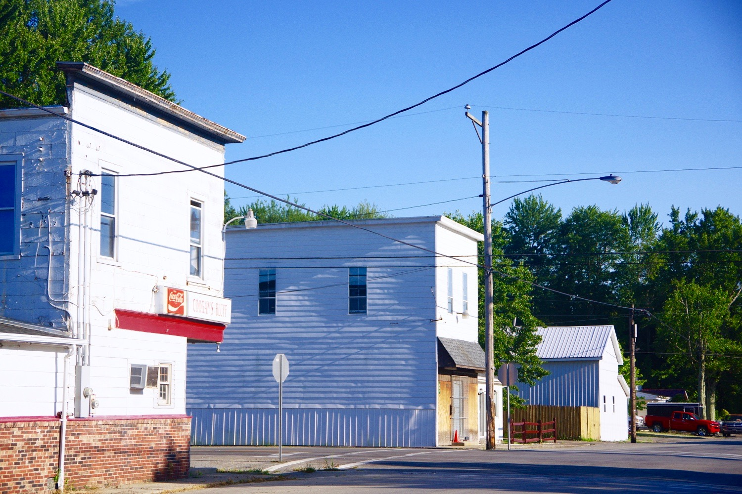 View along Cross Street in Newtonsville, Ohio, United States.